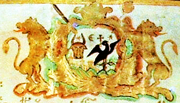 Coat of arms of Wallachia and Moldavia during Constantin Ipsilanti's rule in Wallachia